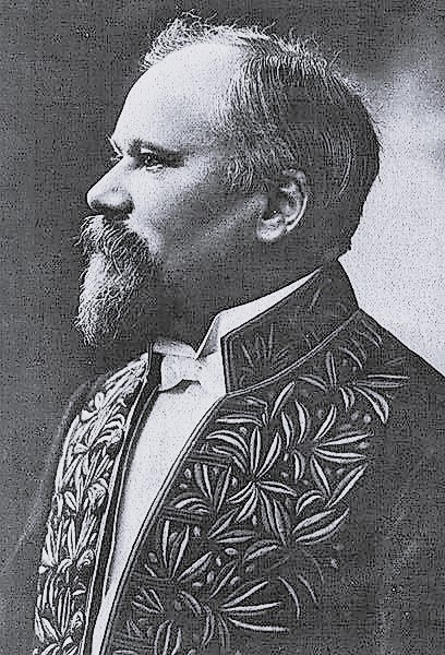 Portrait of Raymond Poincaré (1860-1934)